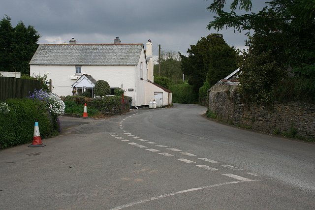 The Hamlet of Doddycross.